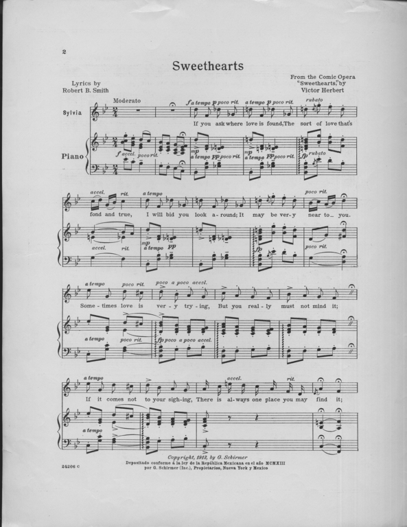 Sheetmusic from Sweethearts, 1913